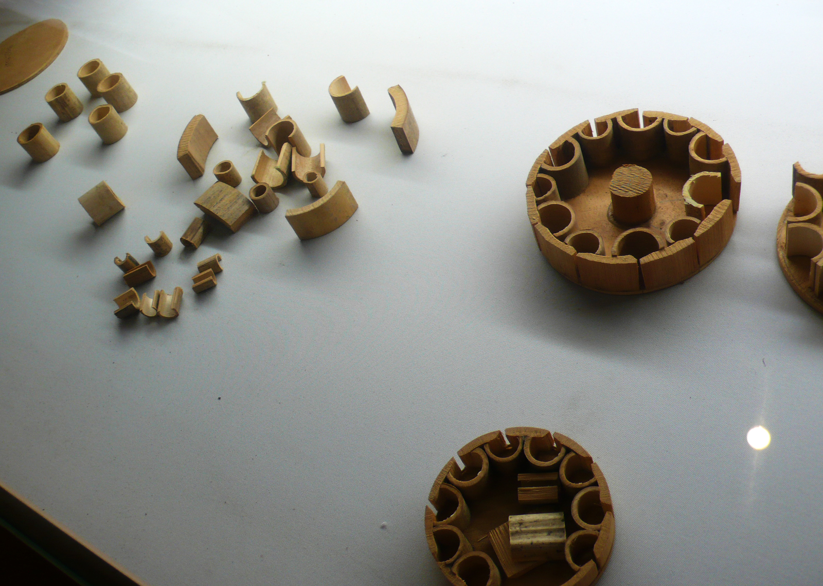 Parts of a Chinese yo-yo.